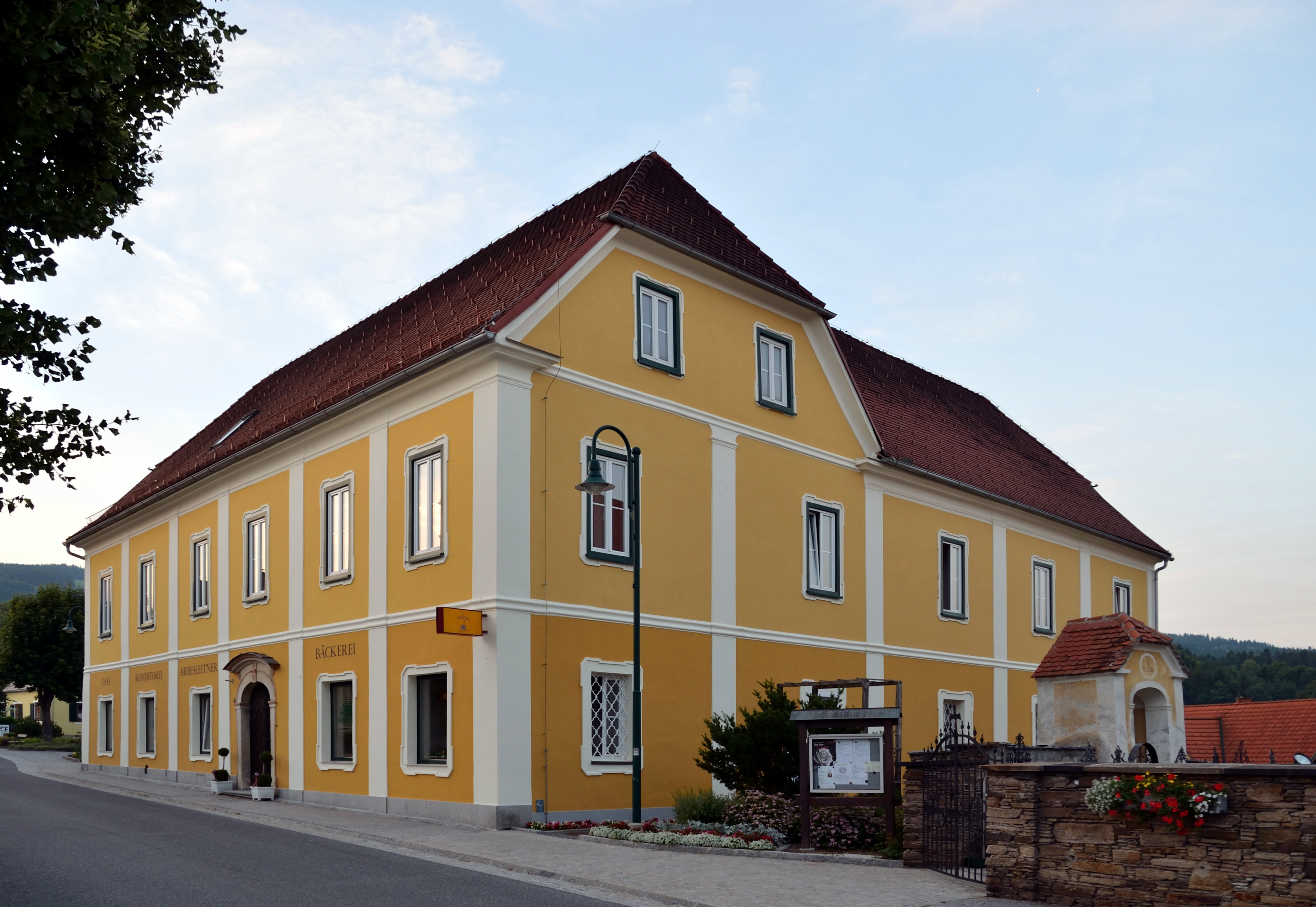 Former rectory in Miesenbach bei Birkfeld, Styria.